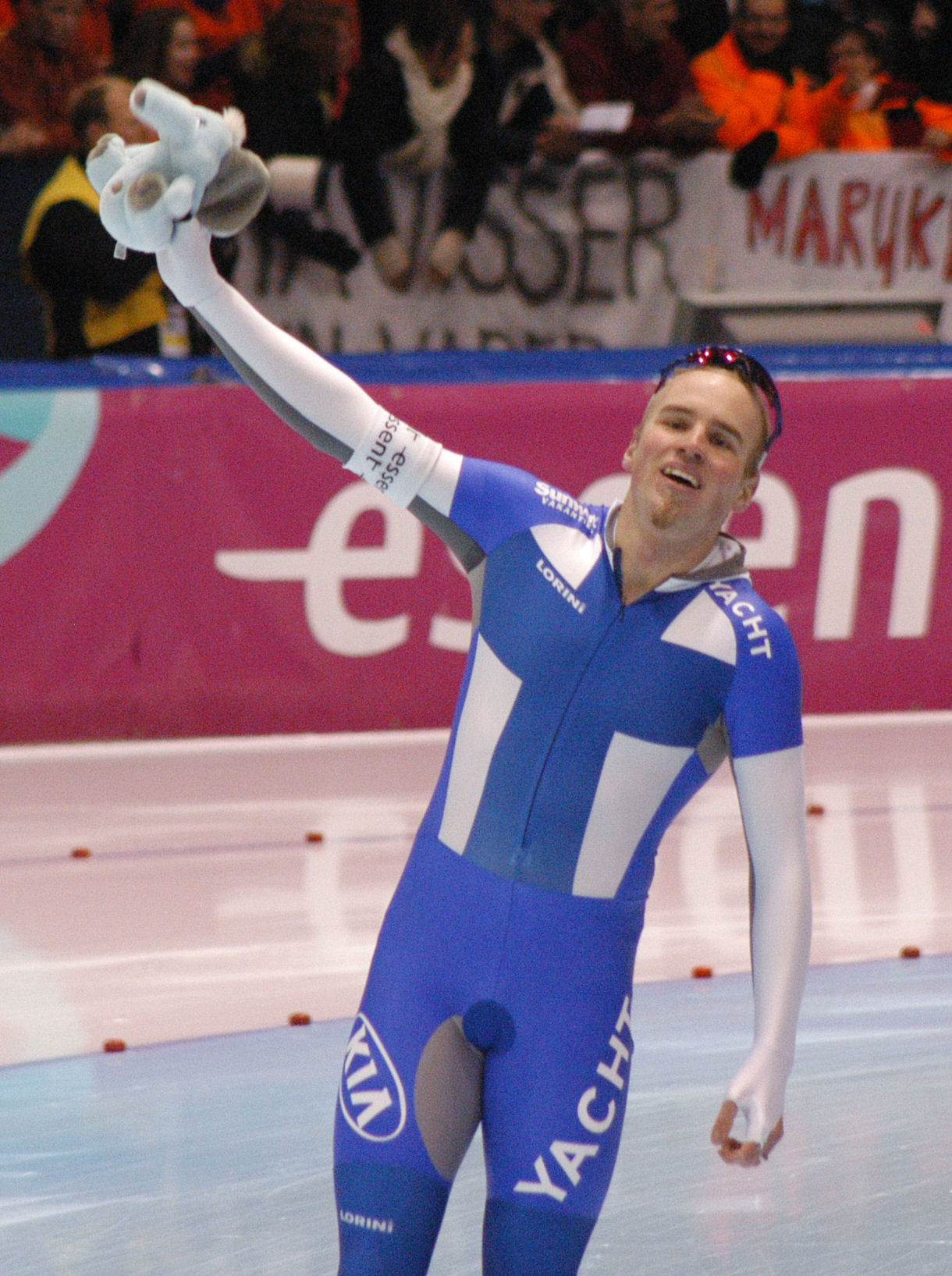 Mika Poutala (FIN) after a 1000 meter world cup speedskating race in Heerenveen, the Netherlands.